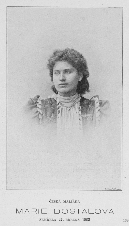 Portrait of Marie Dostalová (1877-1903), Czech painter